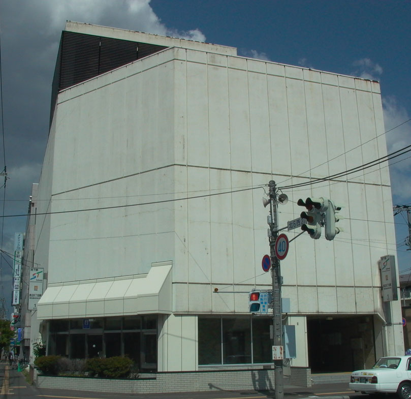 Nishinijuhatchome station, Sapporo, Hokkaido, Japan